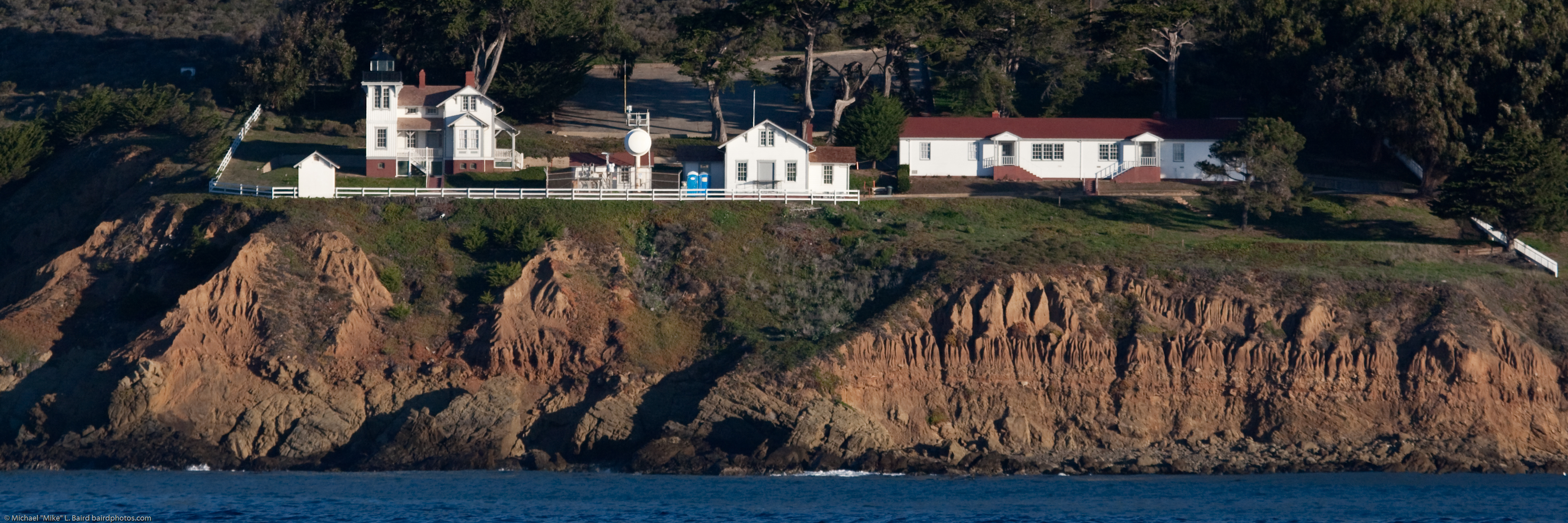 The Point San Luis, CA lighthouse and light station lightstation. Lighthouse keeper Paul Oconnor who volunteers at this lighthouse said "What is great about this photo is you can see all the buildings, except for the privy that we are restoring behind the duplex (which is the only non original building, besides Marlin's house). The structures from left to right are: Oil House (where flammables were stored), Head Lighthouse Keepers Quarters and Lighthouse, Coal House (still occupied by the Coast Guard and Homeland Security), Fog Signal Building (sometimes called Horn house or Whistle House) and the Coast Guard Duplex (so dubbed because the original Assist Lighthouse Keepers Duplex was bulldozed in the ocean in the early 60's to build this more modern building for the CG personnel)."